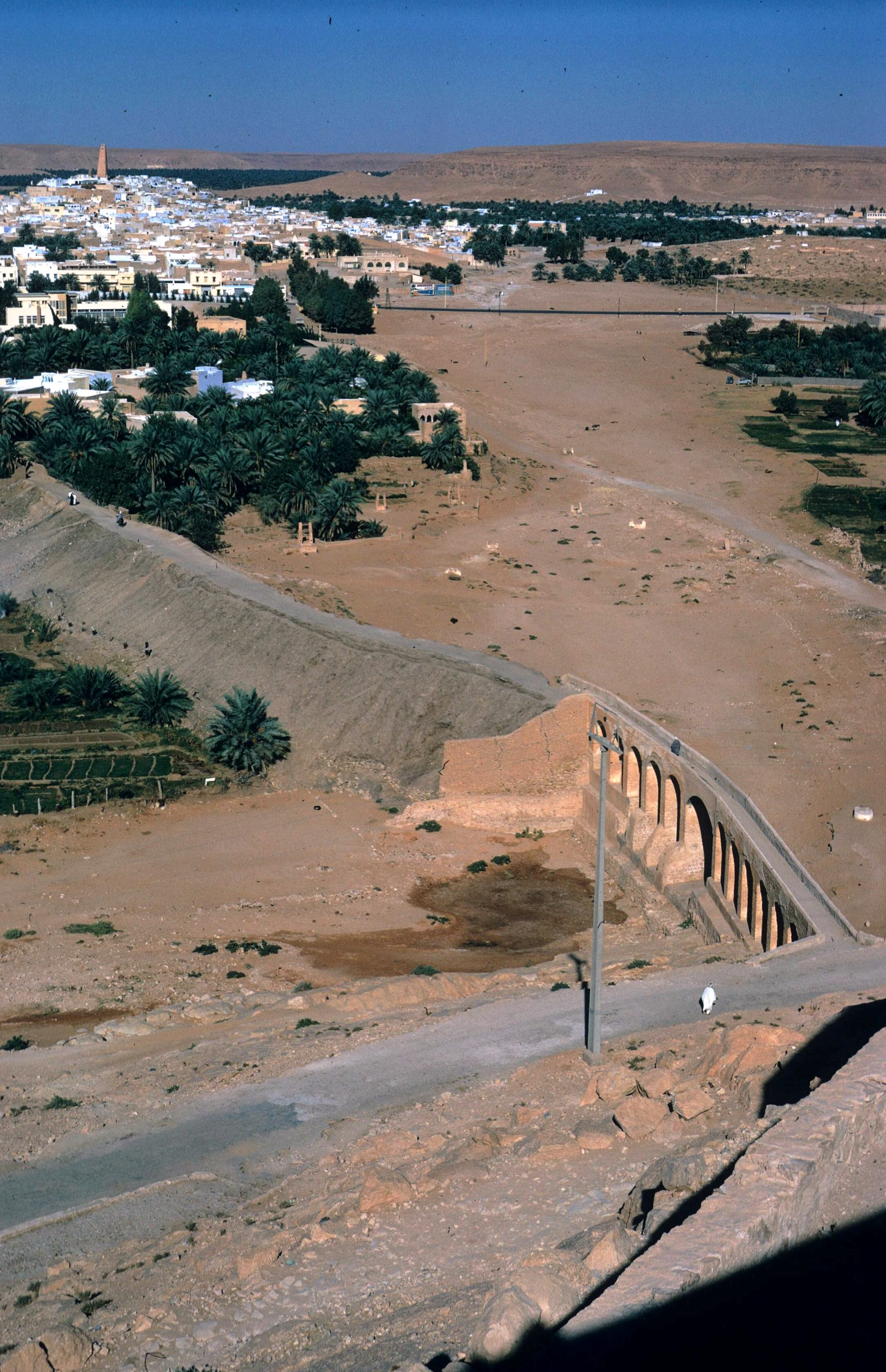 dry river valley, Ghardaia, Algeria